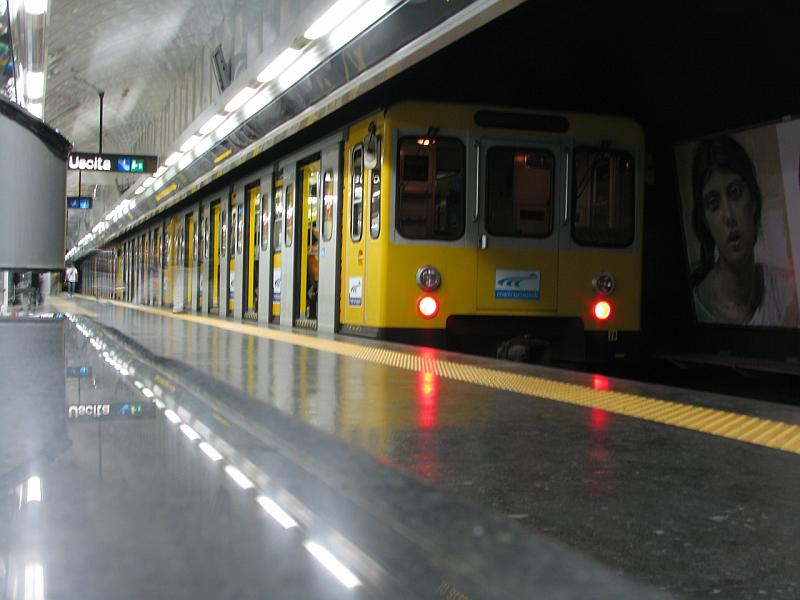 Metro Napoli, Italy